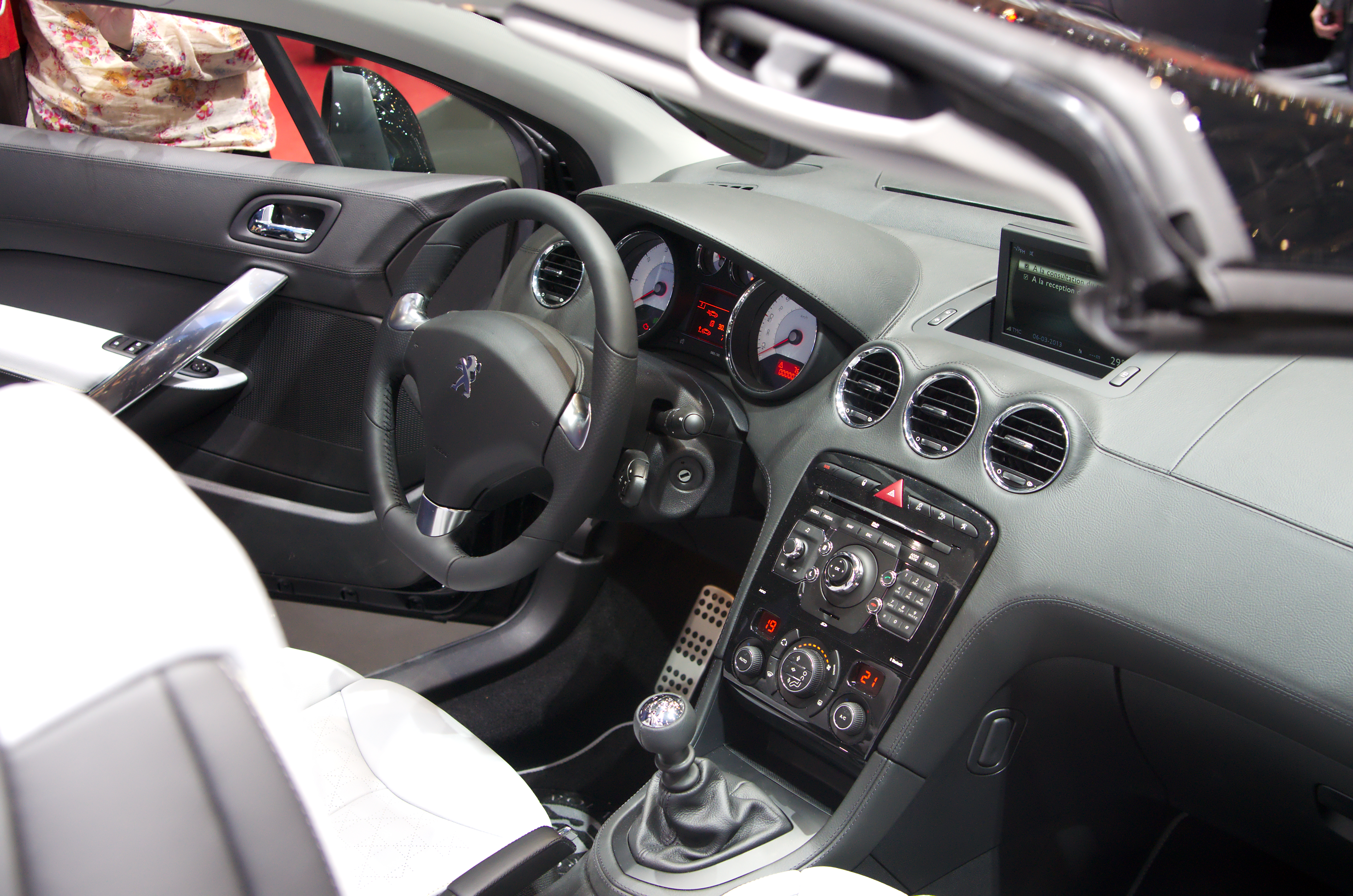 Geneva MotorShow 2013 - Peugeot 308 CC Roland Garros steering wheel